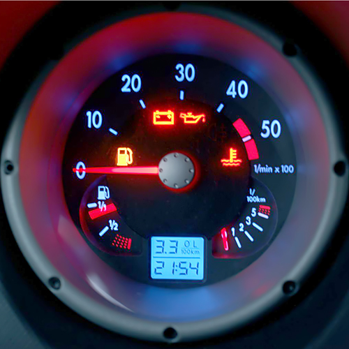 Tachometer of the VW Lupo 3L TDI